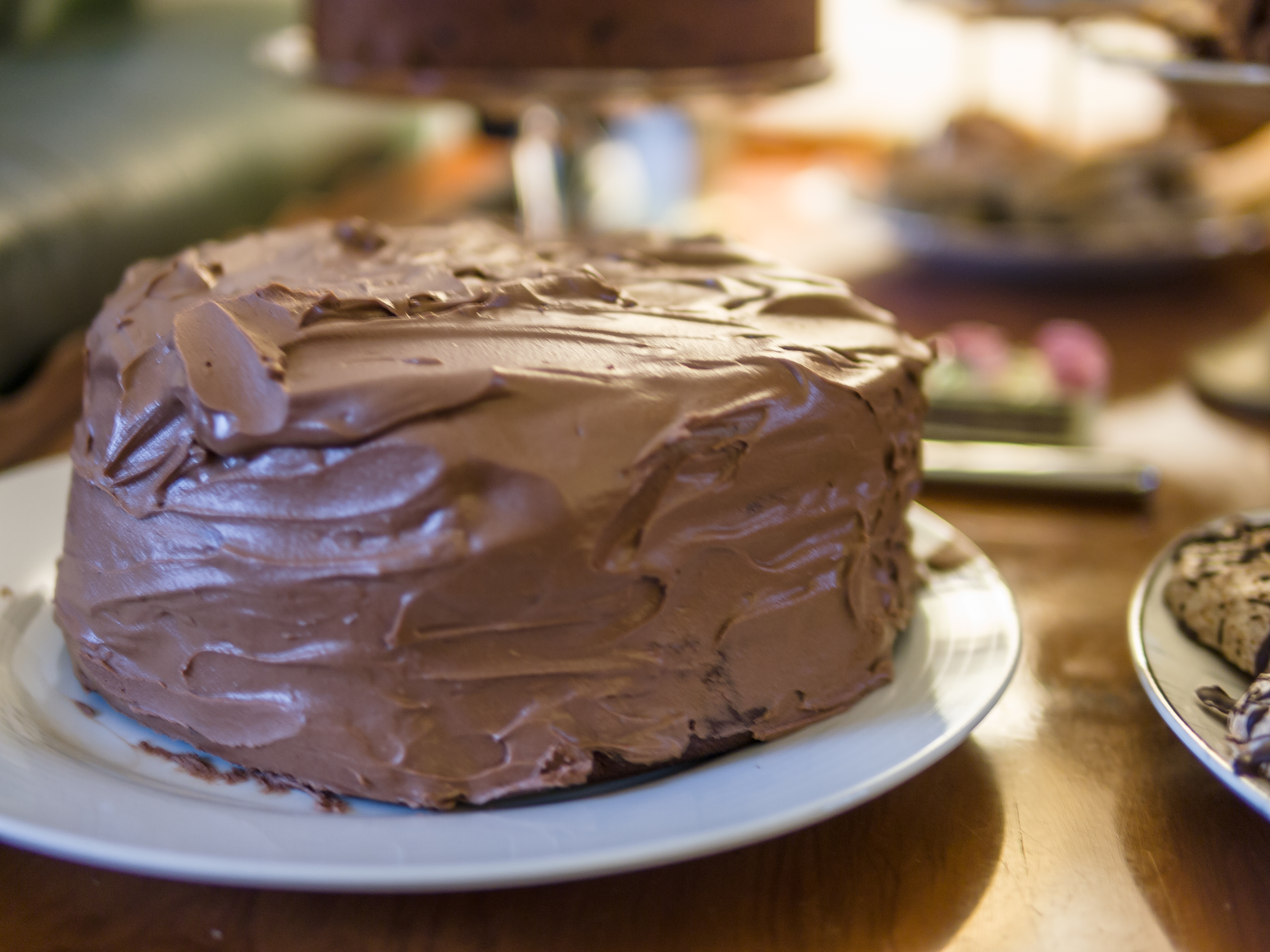 Tea party